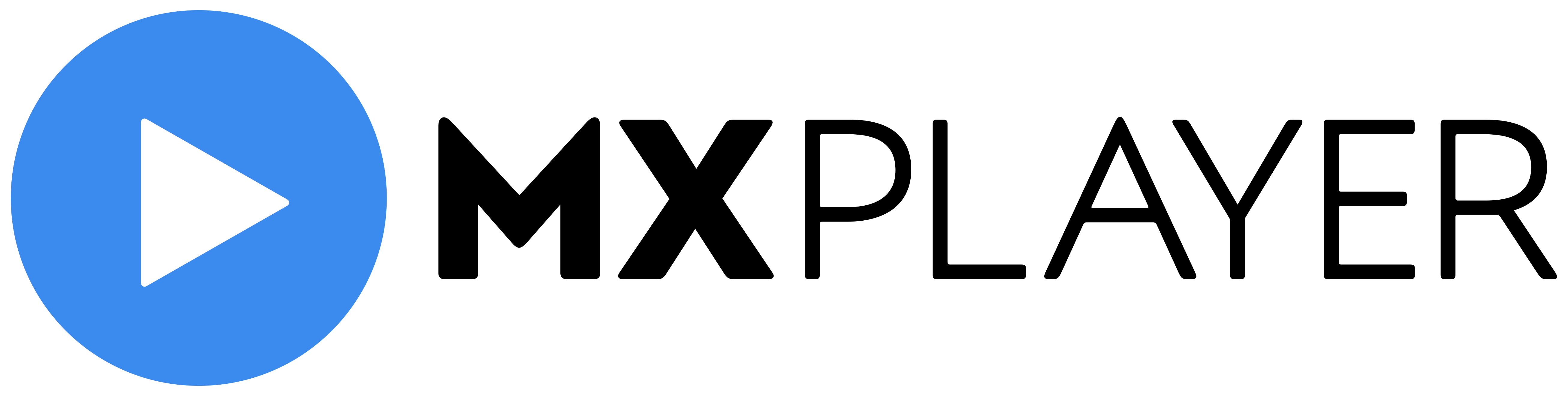 Logo of MX PLAYER